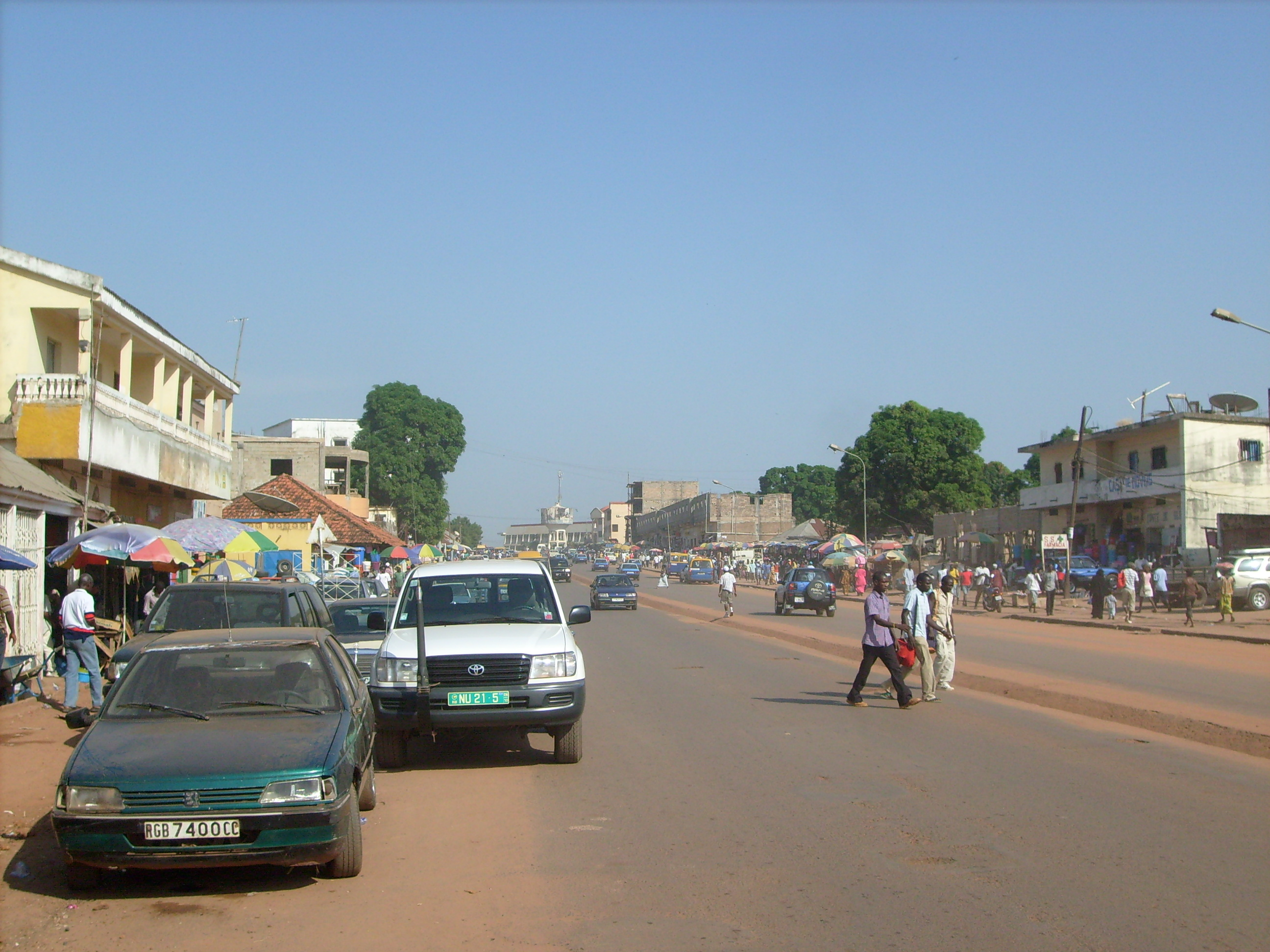 Bissau, Guinea-Bissau, main road from airport to Parliament building